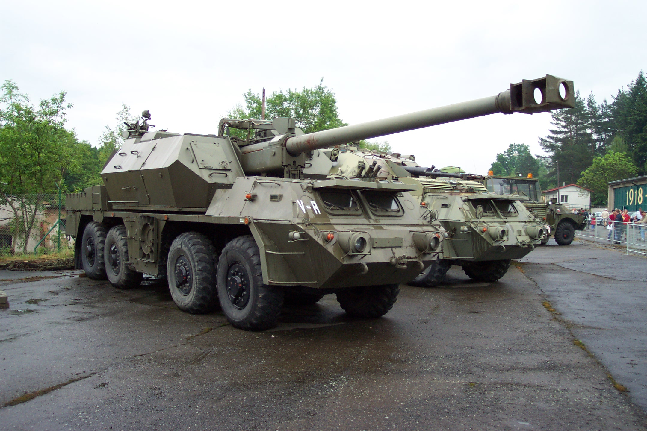 Self-propelled howitzer 152mm SpGH DANA on Tatra T815 chassis in the army museum in Lešany